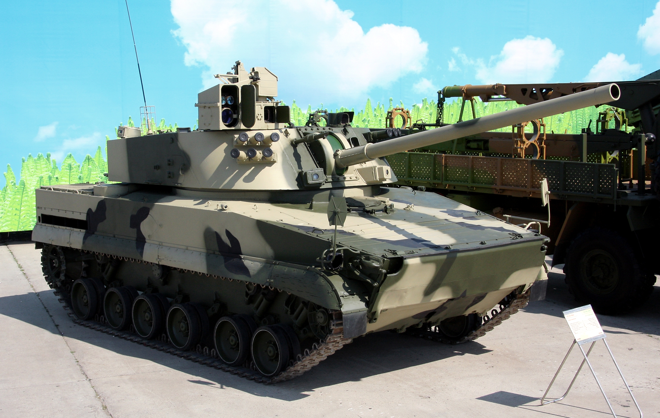 2S31 "Vena" self-propelled howitzer-mortar at "Engineering Technologies 2010" forum